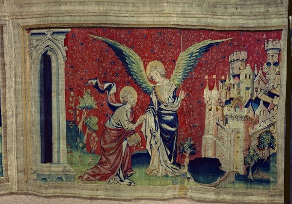 Château d'Angers; Angers; Pays de la Loire, Maine-et-Loire; France; Tenture de l'Apocalypse; ; Cultural heritage; Cultural heritage|Tapestry; Europeana; Europe|France|Angers; Hennequin de Bruges (Jan Bondol en flamand); connu également sous les noms de Jean de Bruges ou de Jean de Bondol ou encore Jean de Bandol; ; Ref.: PMa_ANG071_F_Angers